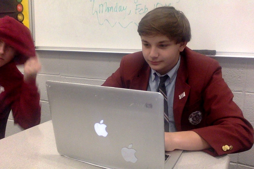 UMS laptop